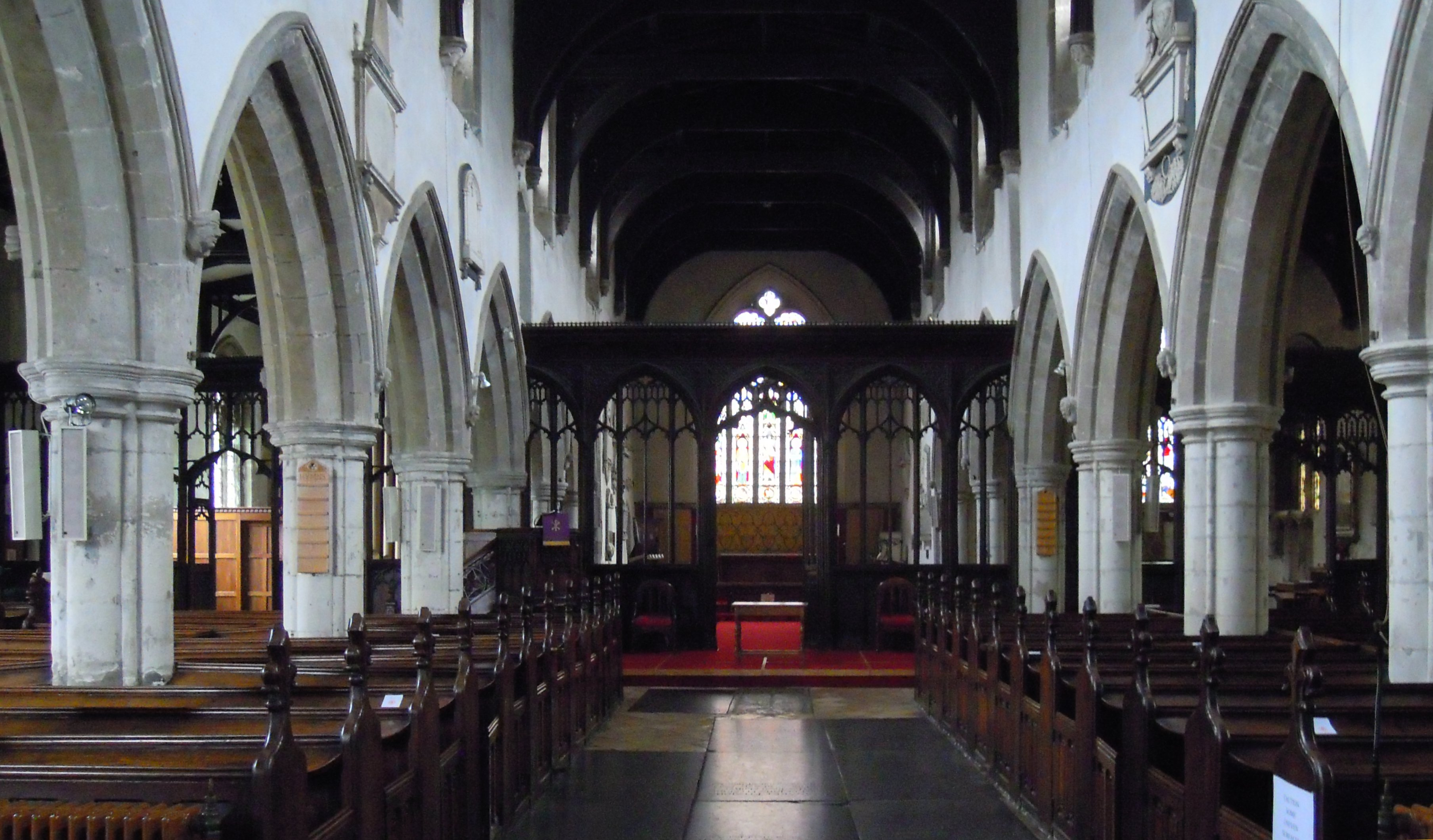 The nave of St. Mary the Virgin in Baldock